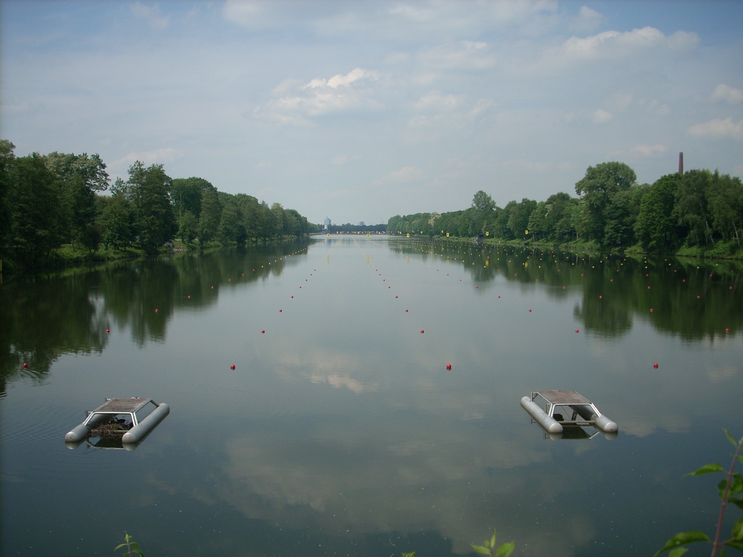 Regatta course in Duisburg in May 2009